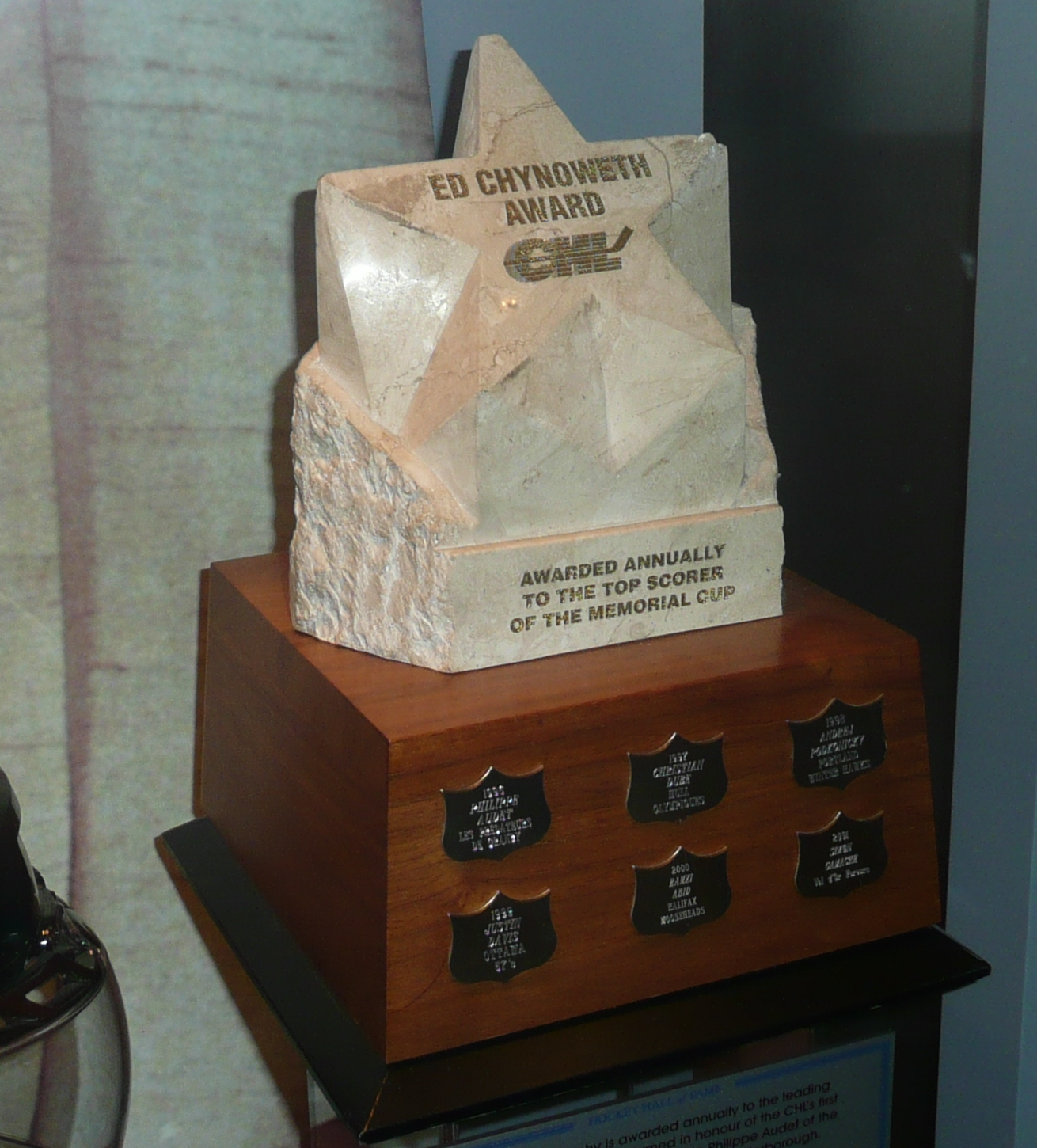 The Ed Chynoweth Trophy on display at the Hockey Hall of Fame.